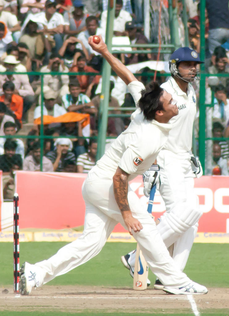 Mitchell Johnson bowling a delivery on Day 2 of the Second Test of the Border Gavaskar Trophy 2010 - 11.